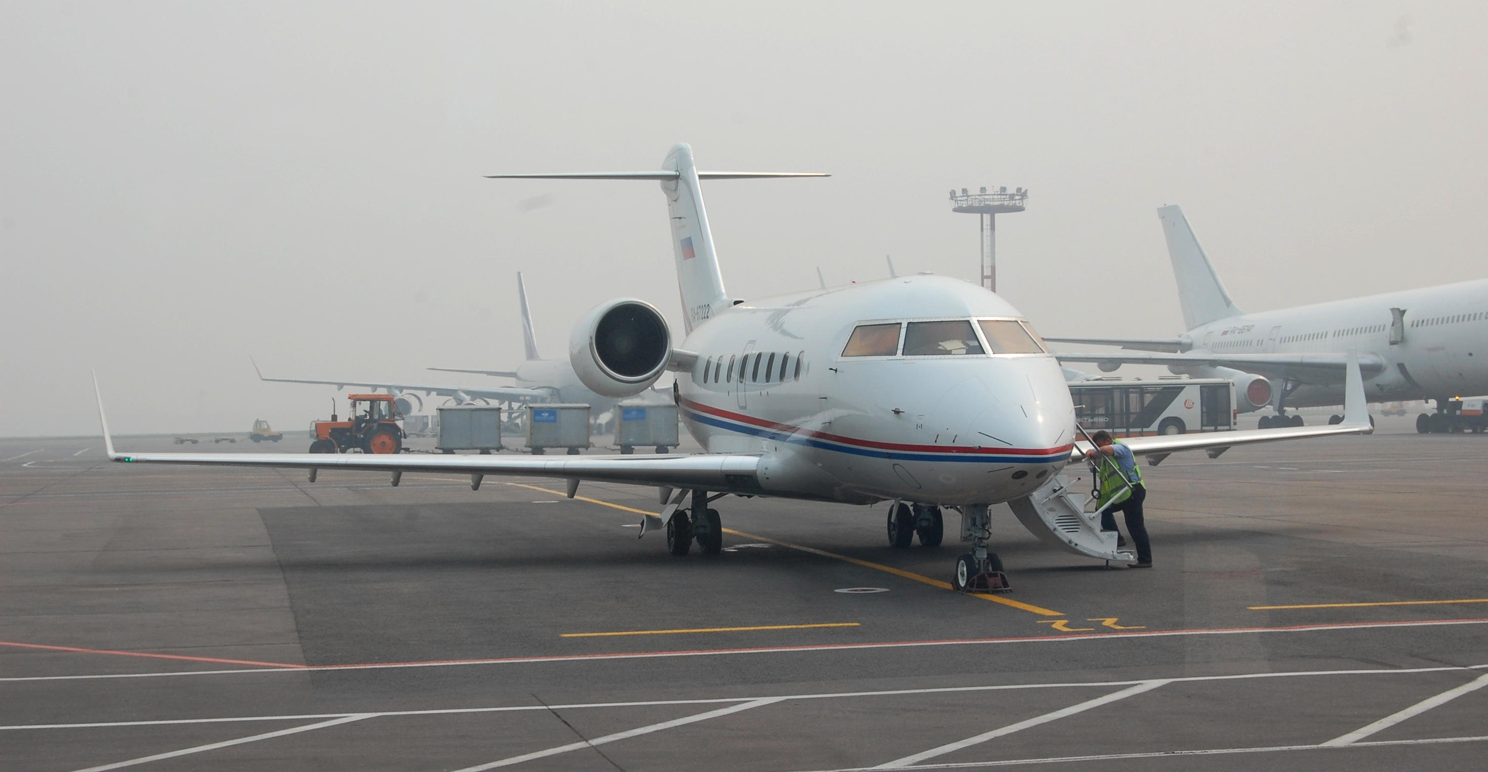 Bombardier Challenger 604 RA-67222 at Sheremetyevo Airport in Moscow